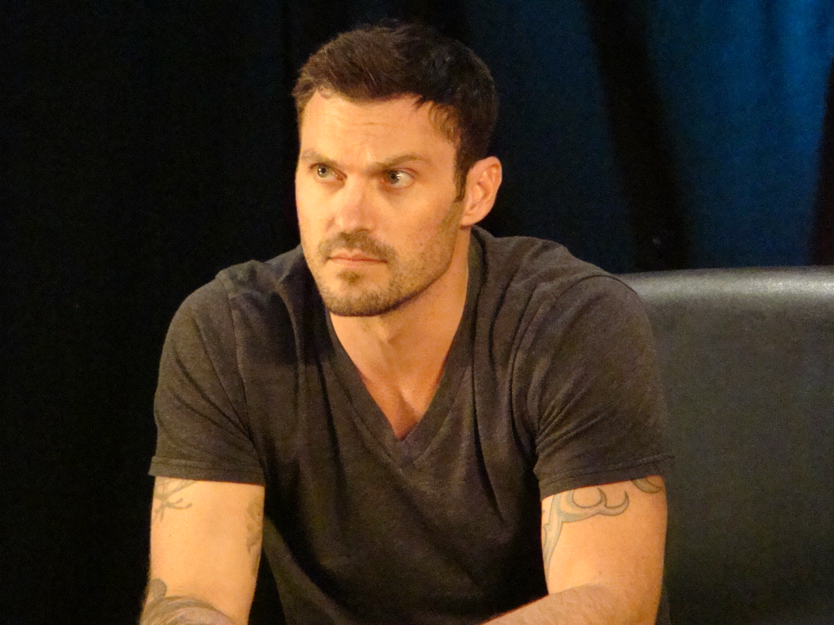 Brian Austin Green